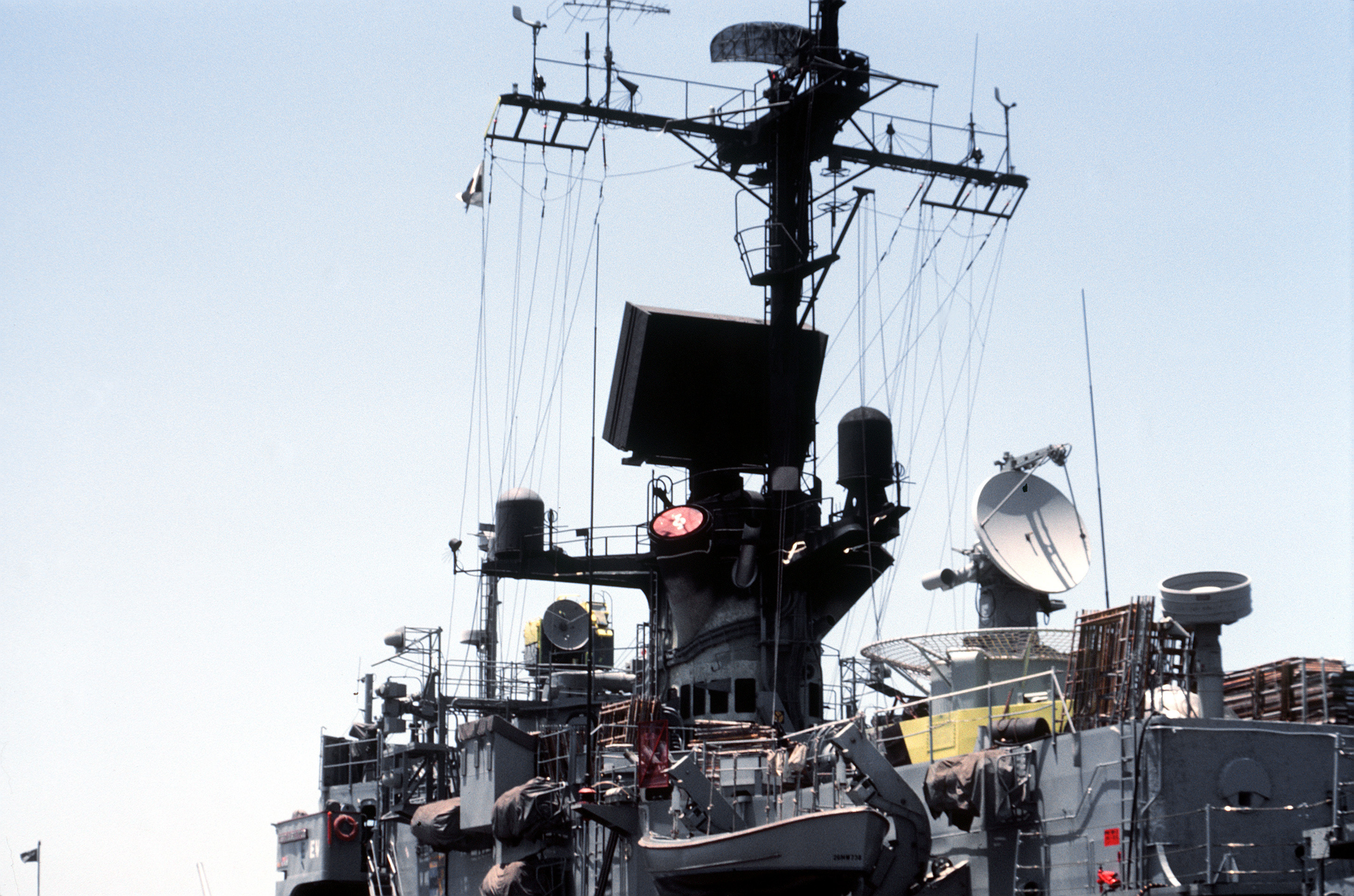 A view of the AN/SPP-51C (circular), AN/SPS-52D (large block) and AN/SPS-10F radar aboard the Brooke class guided missile frigate USS RAMSEY (FFG-2).